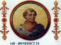 Portrait of Pope Benedict IX in the Basilica of saint Paul Outside the Walls, Rome